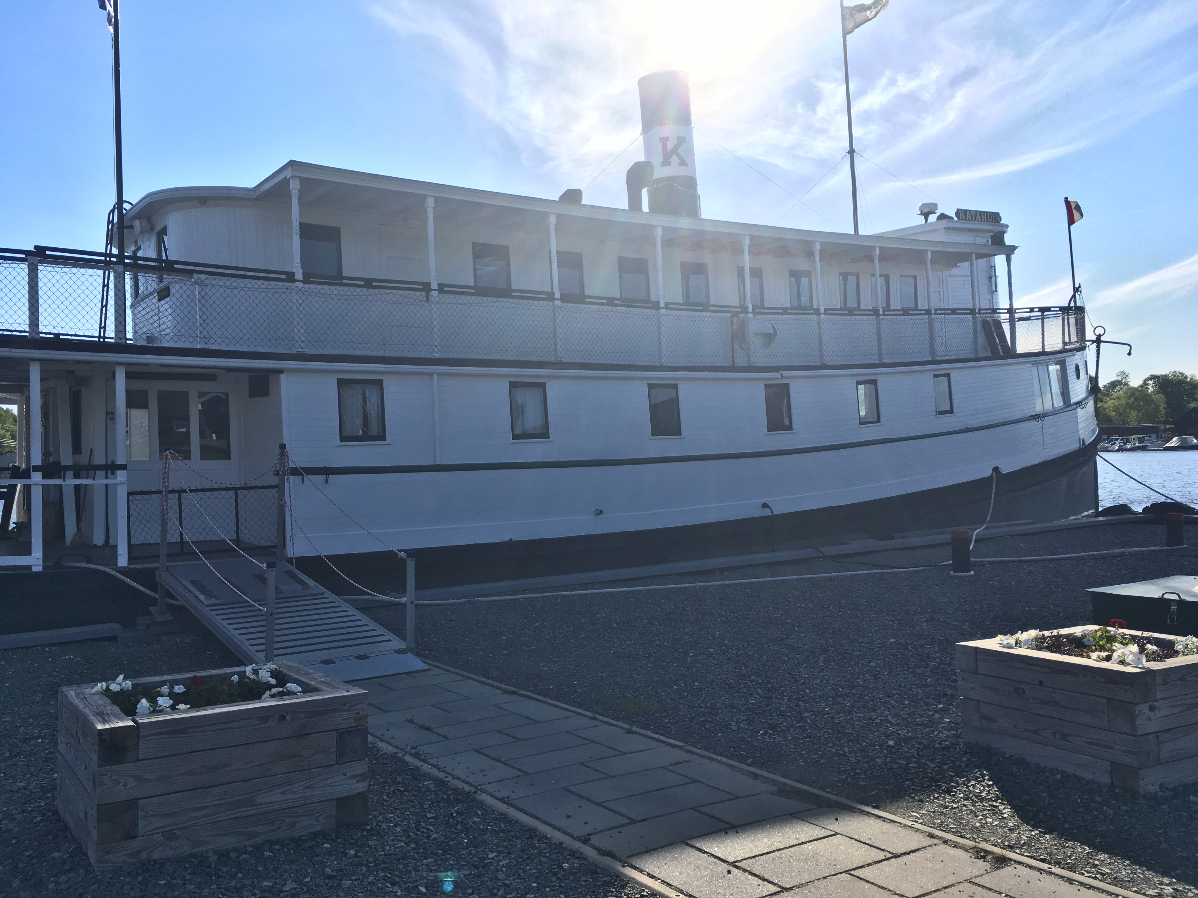 The Katahdin steamboat on the shores of Moosehead Lake